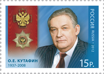 Holder of Order of Merit for the Fatherland, O.E. Kutafin (1937-2008)